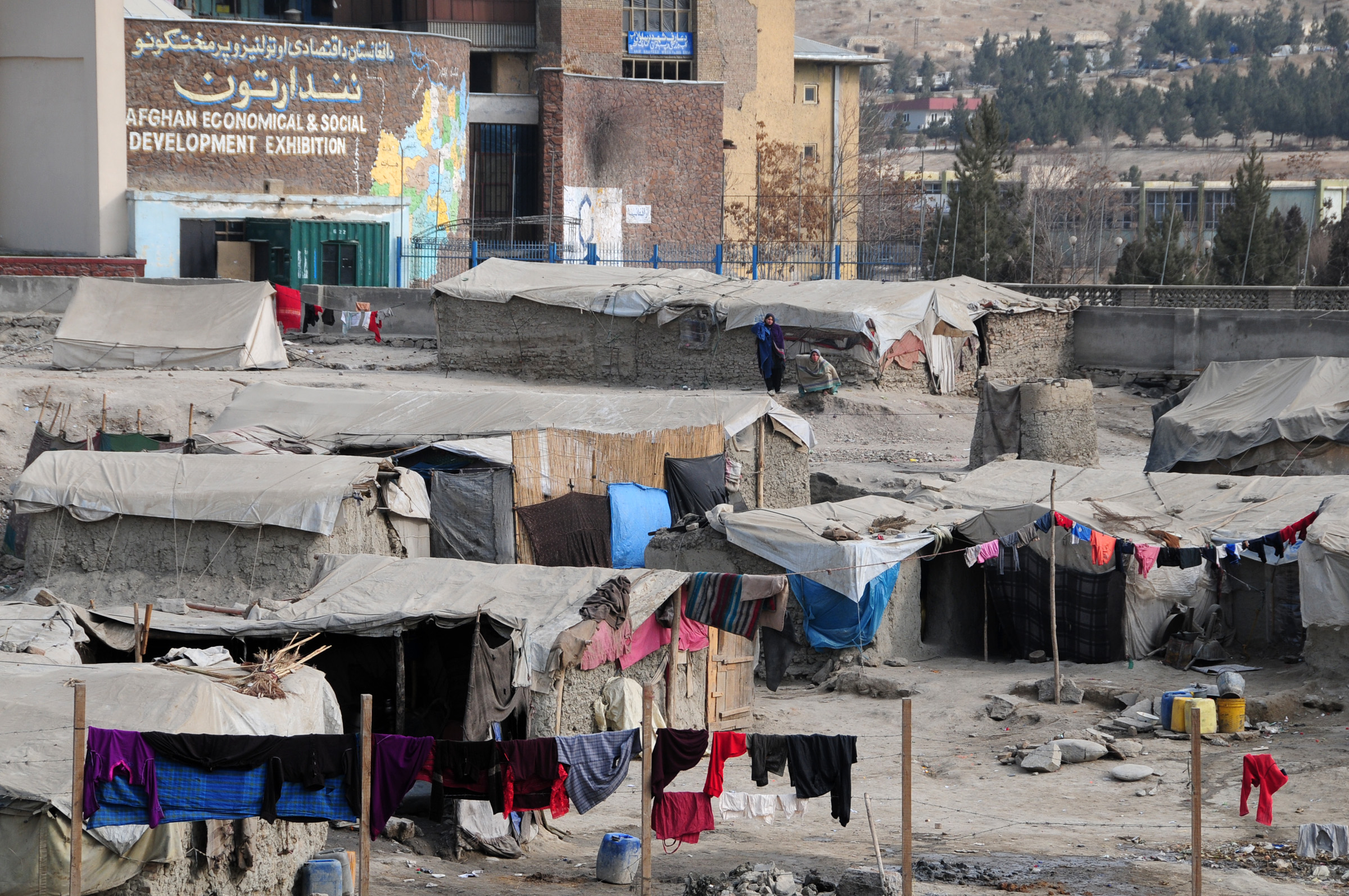 An overall view of a refugee camp in Kabul